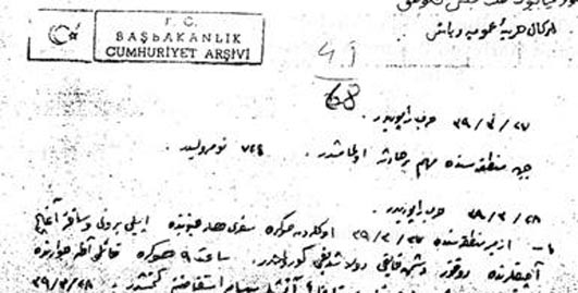 Chief of Staff Fevzi Çakmak's report that allegedly blames Kuşçubaşı Eşref of being a Greek asset.